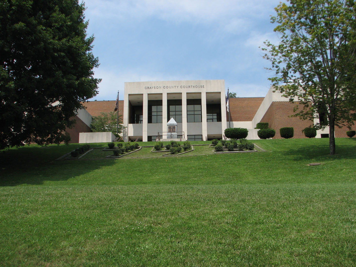 Photograph of Grayson County Courthouse, taken in August, 2006, by RebelAt.